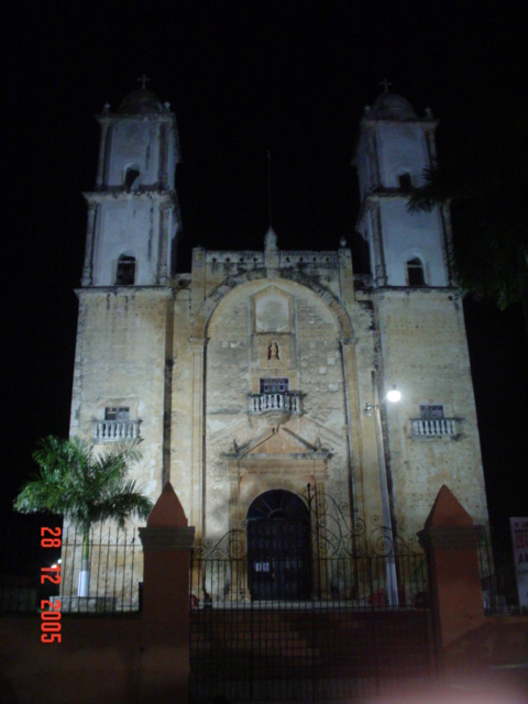 Peto's Church